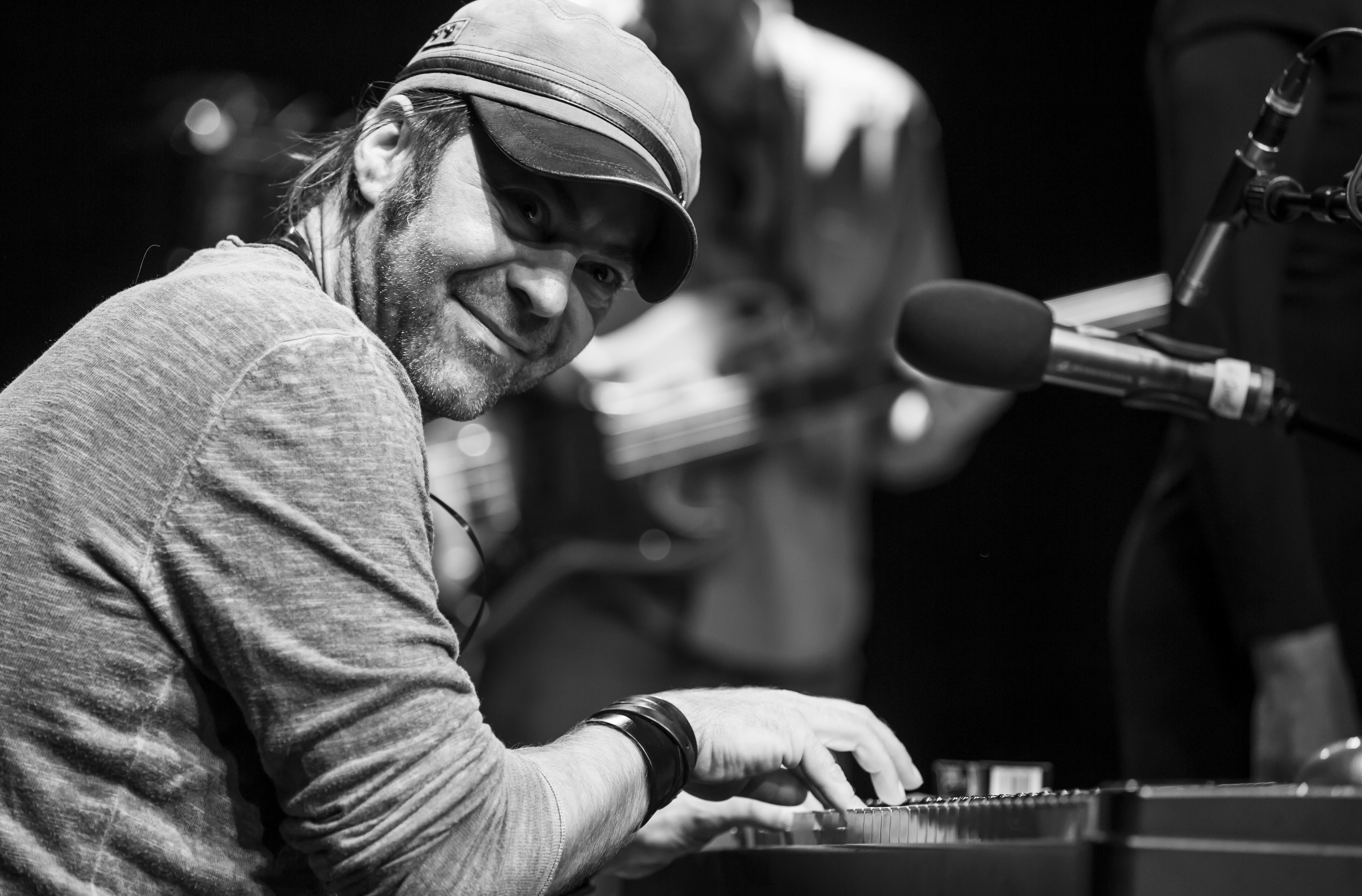 Sandy Lopicic at a charity concert in Graz (Austria) 2013